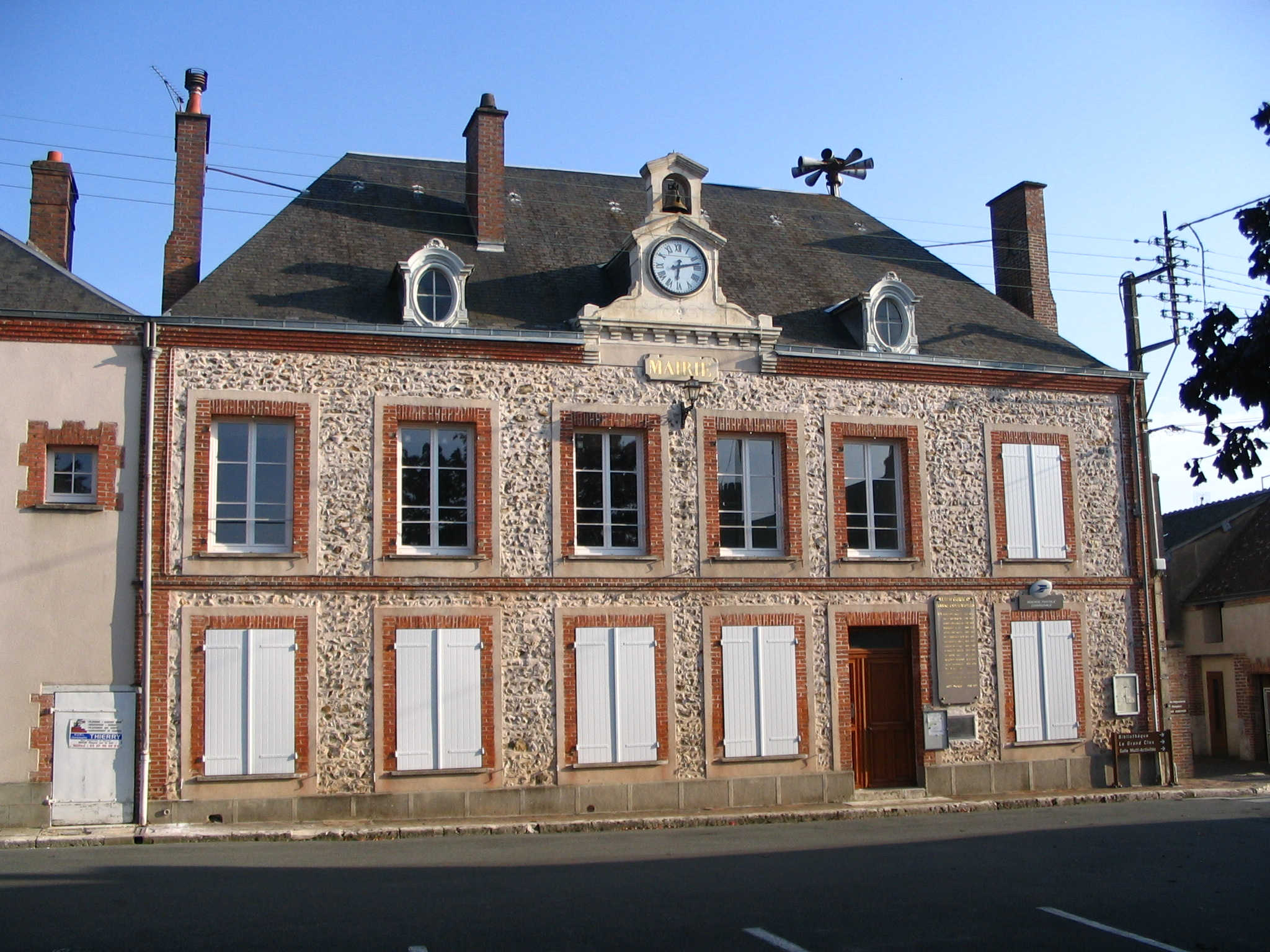 The town hall of Courtalain, Eure-et-Loir, France